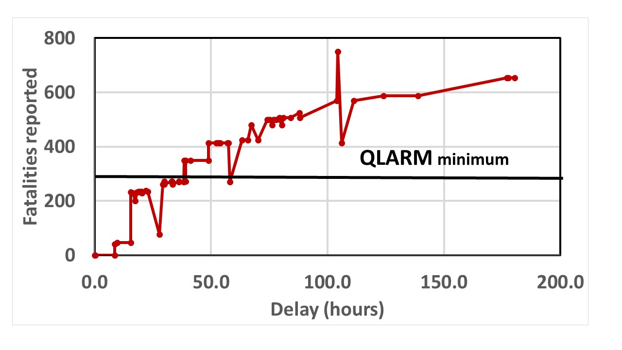 Fatalities 2016 Ecuador earthquake